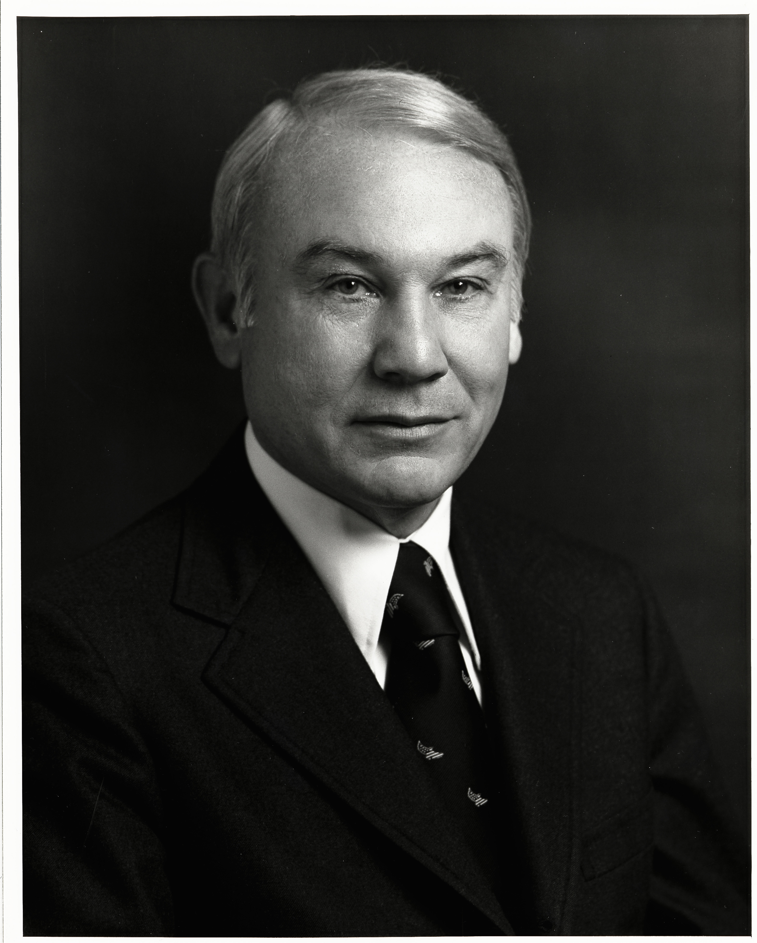 Chairman G. William Miller (served March 8, 1978 to August 6, 1979) Photo credit: Brooks